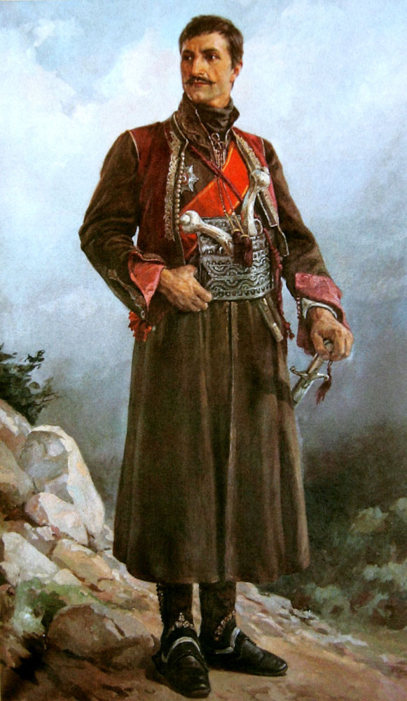 Painting of Karađorđe, standing. Unknown date.